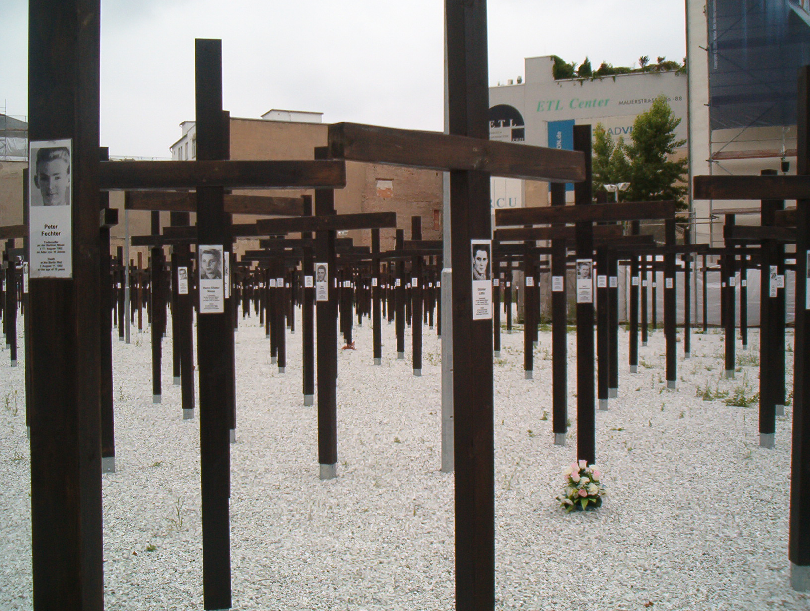 Self Made Peter Fechter on the left side.